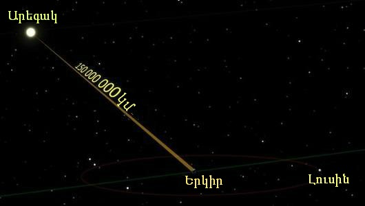 speed of sound picture in armenian